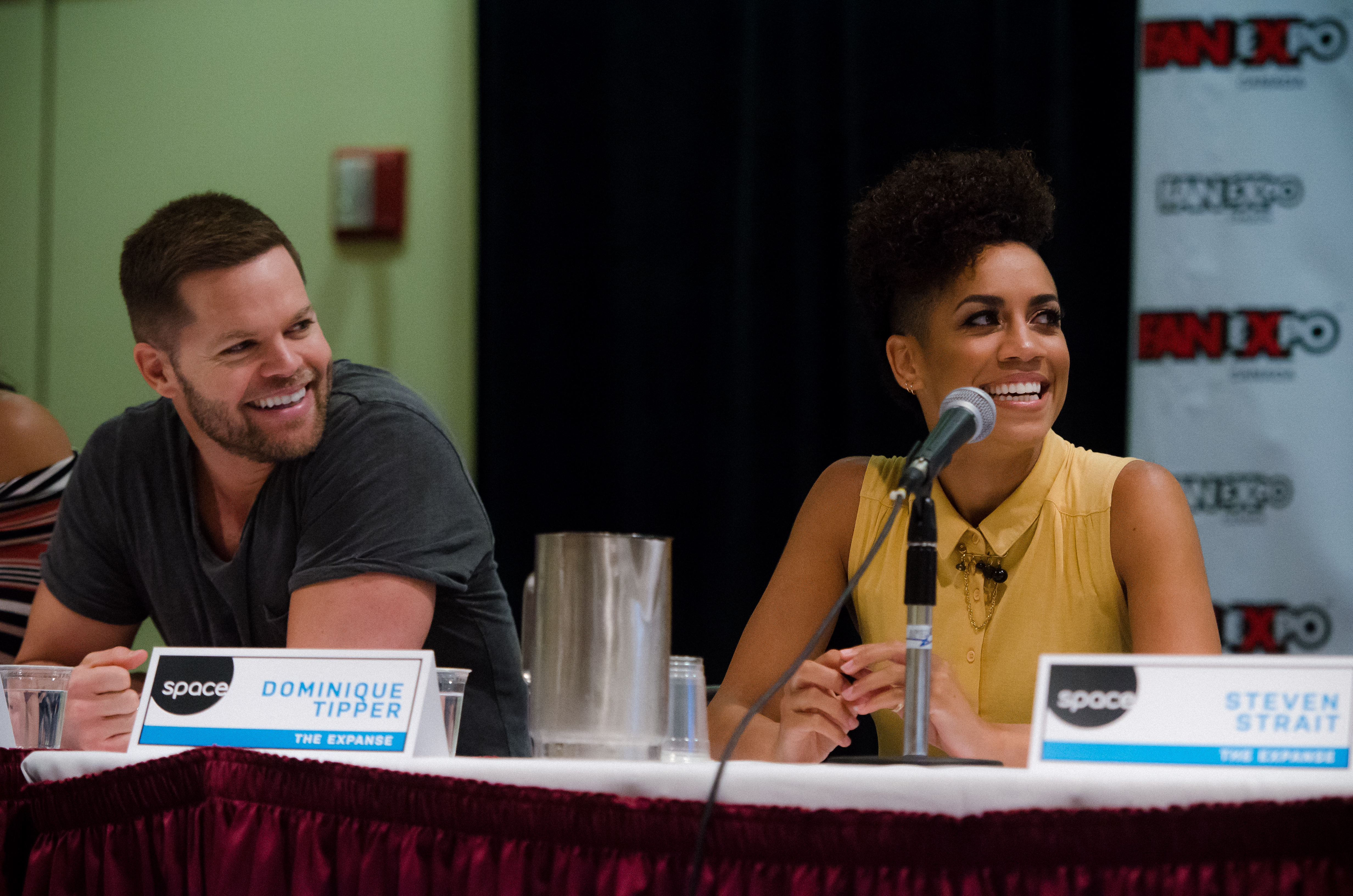 Wes Chatham and Dominique Tipper